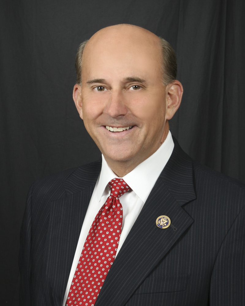 United States Representative Louie Gohmert (R-TX) of Texas's 1st congressional district.